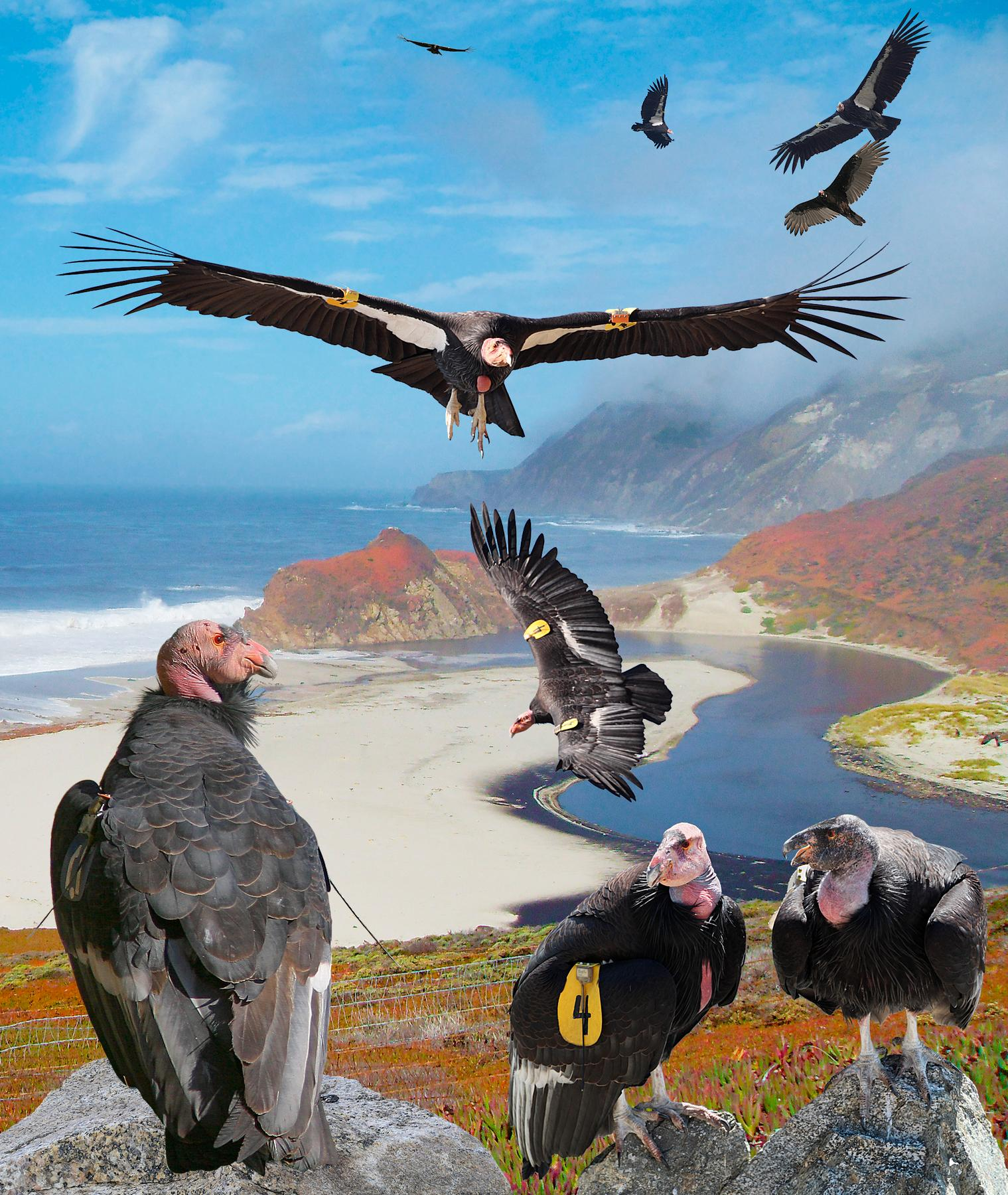 Individuals of California Condor (Gymnogyps californianus), tagged and equipped with radio transponders, in different views (photomontage). For comparison there is one Turkey Vulture (Cathartes aura) in flight in the upper right corner.